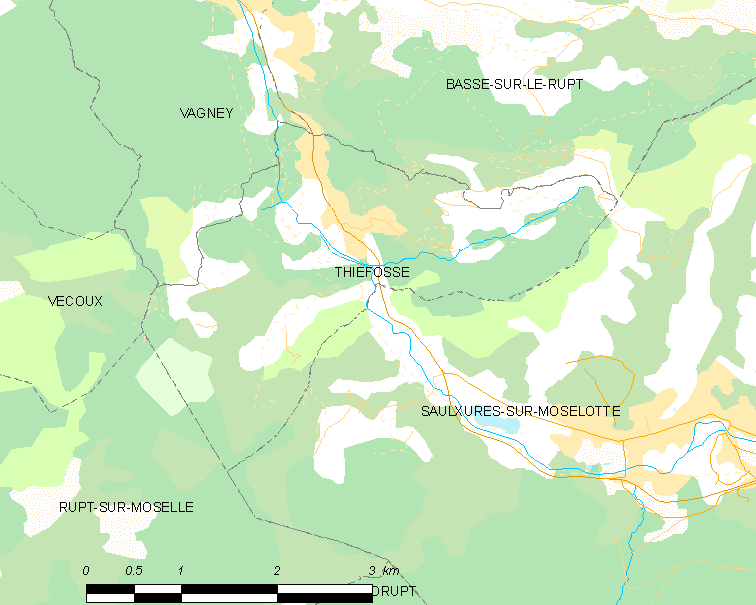 Map of French municipality Thiéfosse